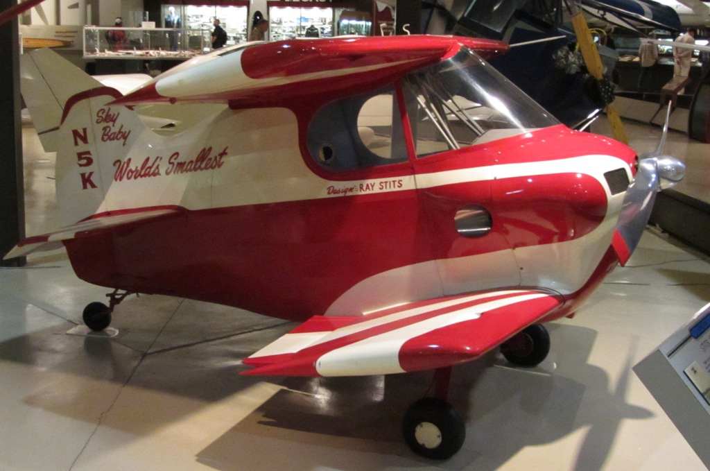 Stits SA-2A